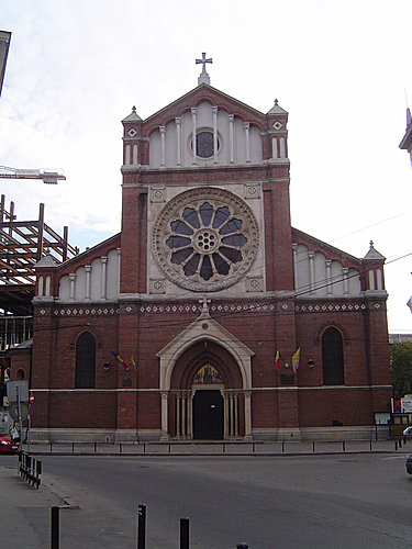 The Roman-Catholic St. Joseph cathedral in Bucharest, Romania